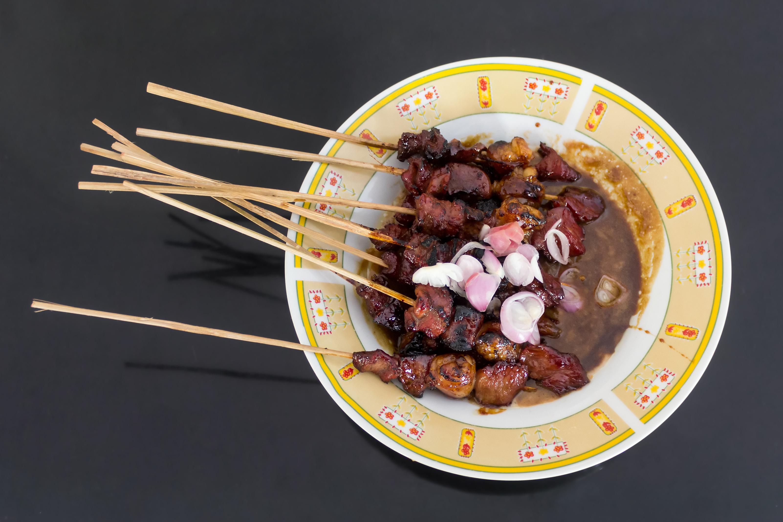 Mutton satay from H. Faqih, Jombang, 2017-09-19